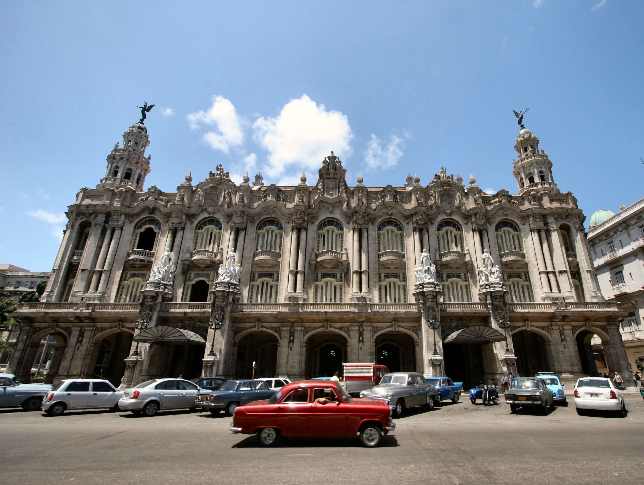 The Great Theatre of Havana (Gran Teatro de La Habana), was officially opened in 1838 in a building known as the Palacio del Centro Gallego. The building was demolished in 1914. The current building construction began in 1908. It was opened in 1915. It was not until 1985 that the building was renamed the Great Theatre of Havana. It is the permanent headquarters of the National Ballet of Cuba.